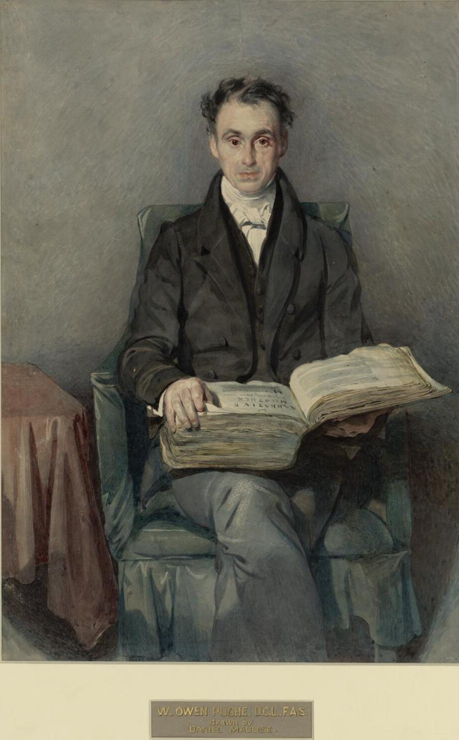 A portrait from the Welsh Portrait Collection at the National Library of Wales. Depicted person: William Owen Pughe – Welsh lexicographer